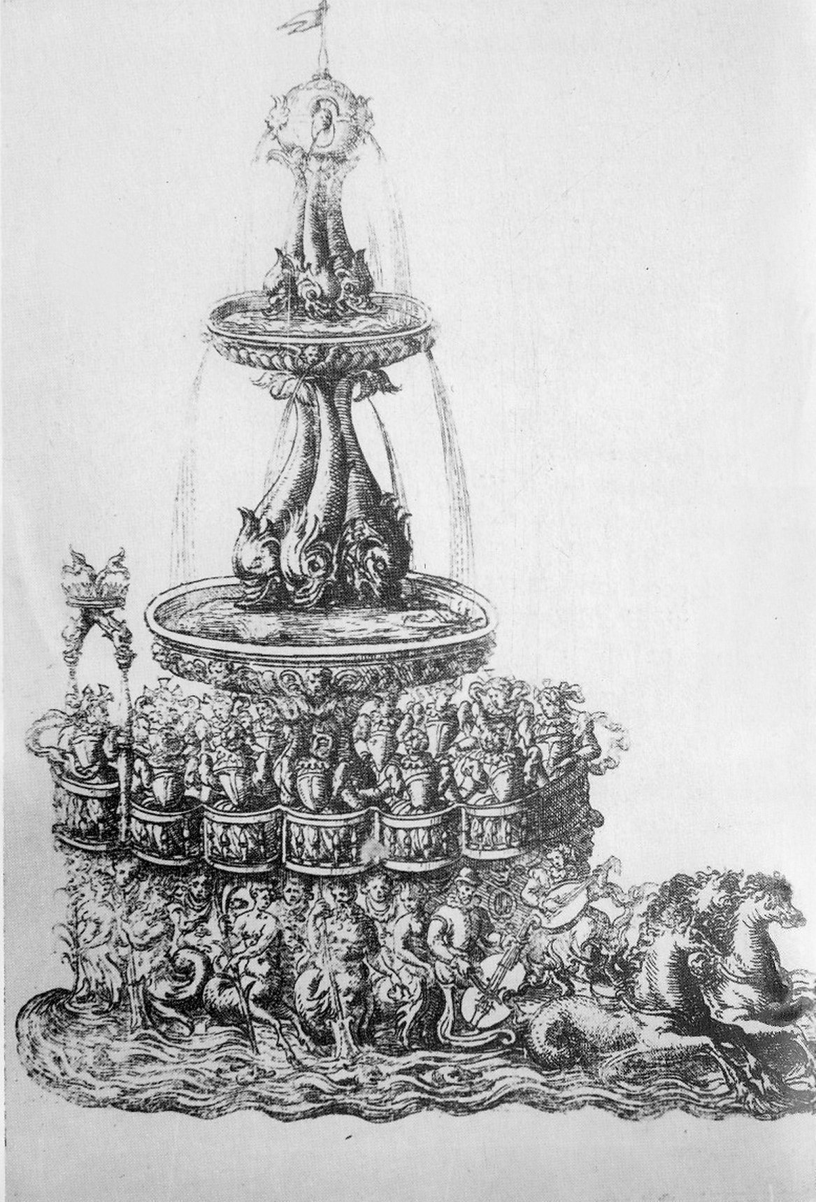 'Figure de la Fontaine': Contemporary illustration of the fountain chariot from the Ballet comique de la reine, 1581. The chariot, designed like a fountain, contained Queen Louise, her ladies, and musicians. The narrative of the ballet, one of the "magnificences" of the age of Catherine de' Medici, mother of Henri III of France, was based on the myth of Circe, who turned men into beasts. This symbolised the state of civil war in France at the time.